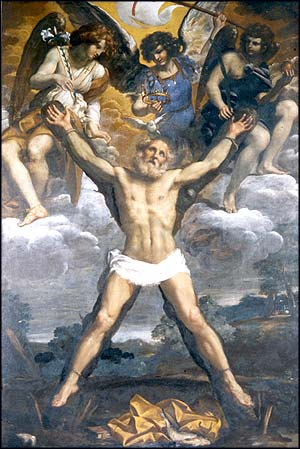 Crocifissione di Sant'Andrea Apostolo con gli Arcangeli Gabriele, Michele e Raffaele, school of Annibale Carracci, maybe by Antonio Gherardi or Andrea Sacchi - Rieti (Lazio, Italy), Church of Santa Scolastica